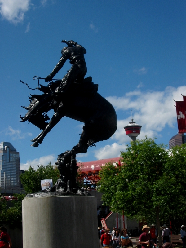 Bronc Twister Statue is 14 foot, 2.5 ton Created by Rich Roenisch Located outside the BMO Centre at Calgary Stampede Based on “I See U” painting by Edward Borein (1919 Stampede) Presented to the Calgary Exhibition and Stampede on the 75th Anniversary of the Province of Alberta Dedicated on November 15, 1980 by Premier Peter Lougheed.